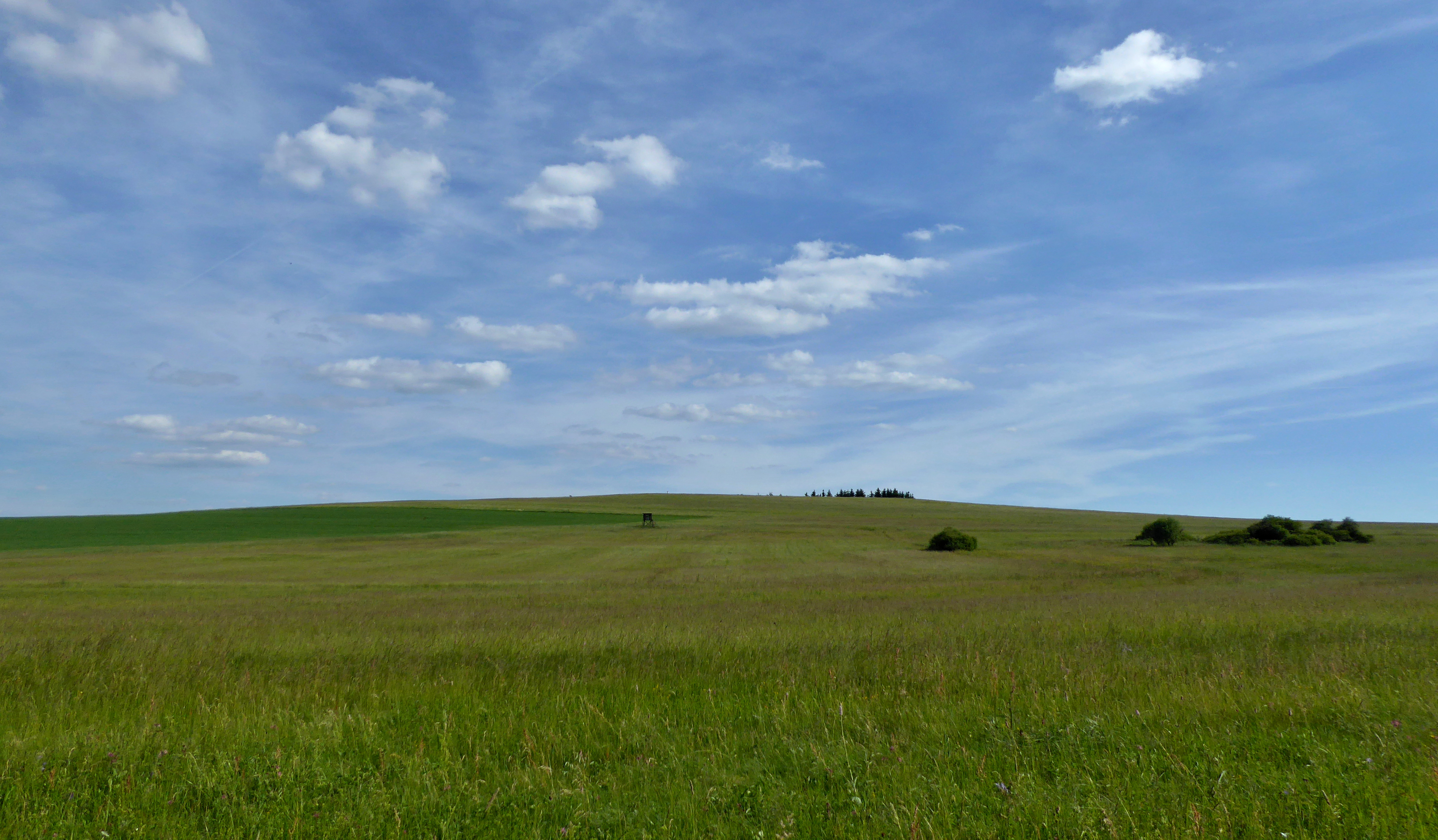 "U oběšeného" is czech geographic name of hill with an altitude of 737.4 m on the edge of the Iron Mountains. A view of the top from the north. Below the peak on damp meadows part of the springfield of the river with name "Krounka" (see shrubs on the photo). Below are natural habitats with peat bog and fens (also in the natural monument with name "U Tučkovy hájenky"). Flowering meadows at the beginning of summer. Locality of "Kameničská" highlands in the Protected Landscape Area "Žďárské" hills. Within the regional division of the Czech Republic's georelief lies the highest peak of the Iron Mountains in the southeast part of the mountain range with called Sečská vrchovina, in the geomorphological district Kameničská vrchovina. The hill is located in the cadastral area Svratouch in the Chrudim District, belong to the Pardubice Region in the Czech Republic. Photo-location: Czechia, Pardubice Region, the village of "Svratouch".